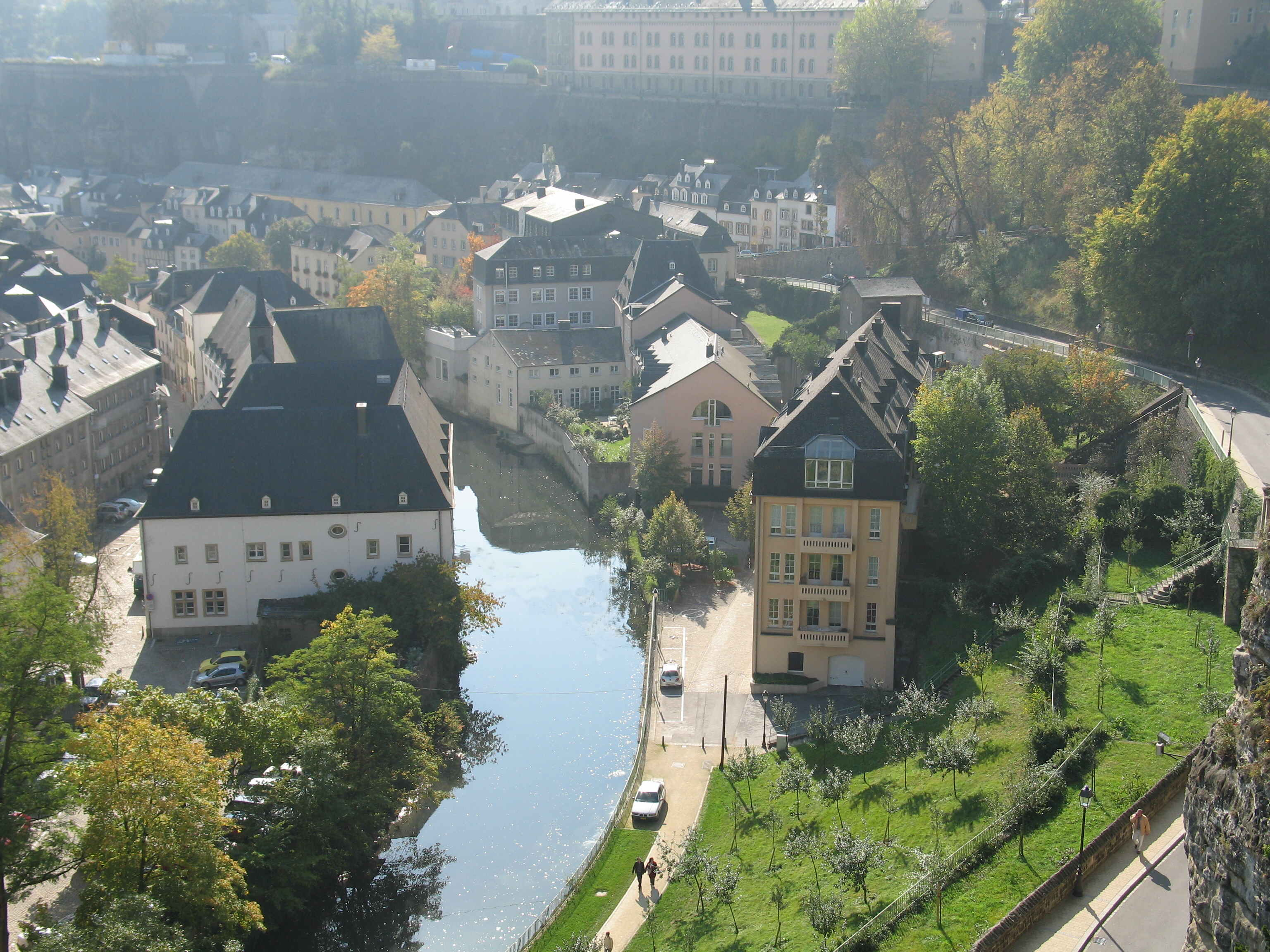 A view onto the quarter "Grund" in Luxembourg City.